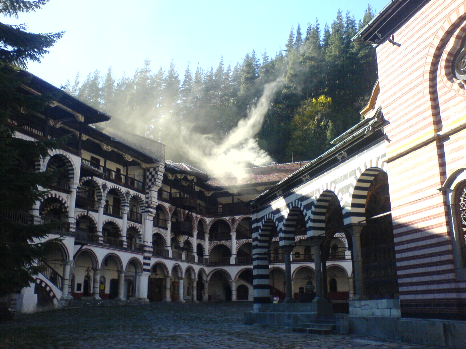 Rila monastery view inside